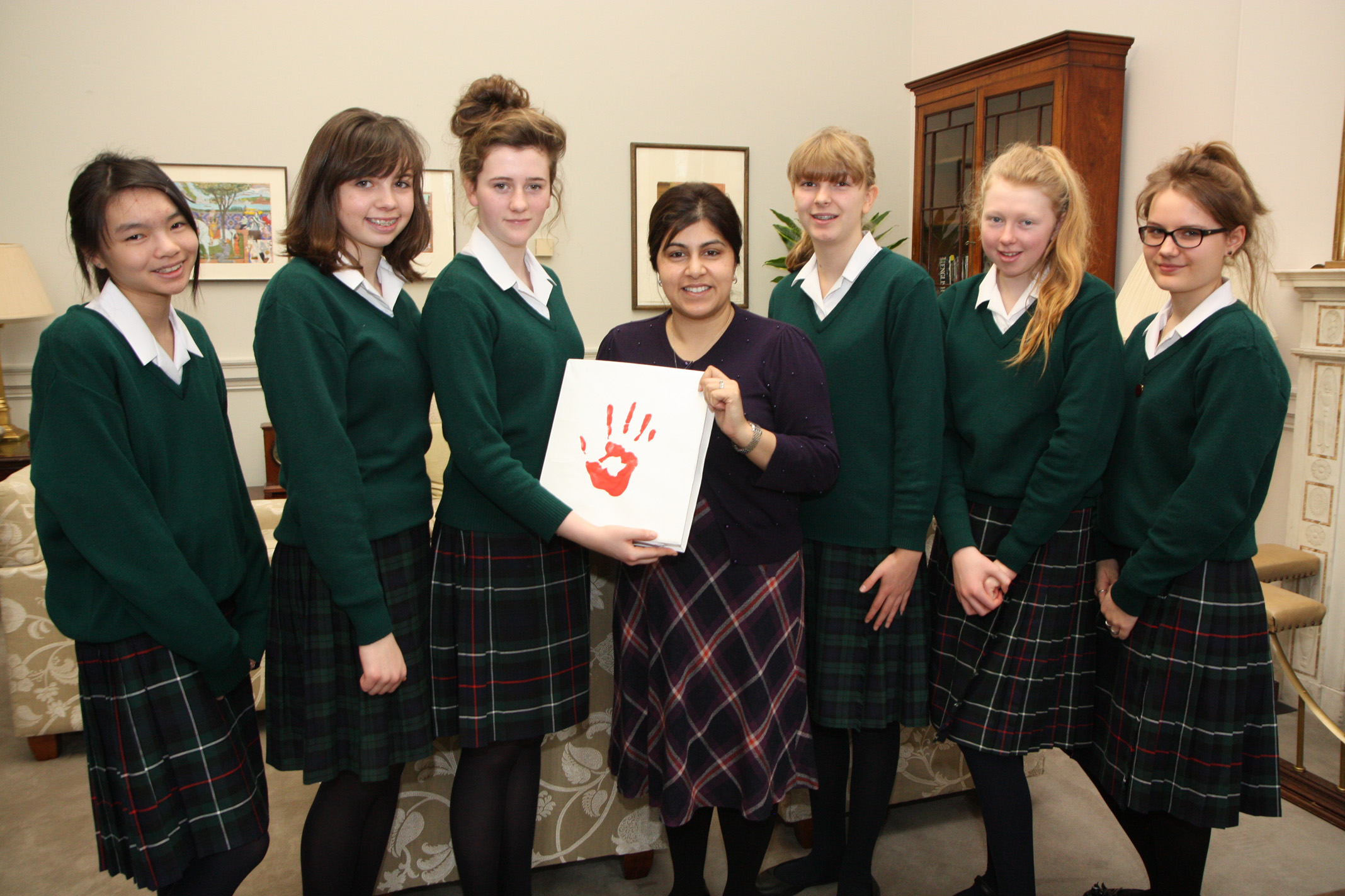 Foreign Office Senior Minister of State, Baroness Warsi meeting students from Kilgraston school who took part in the British Red Cross 2012 justice and fairness competition, 27 February 2013.